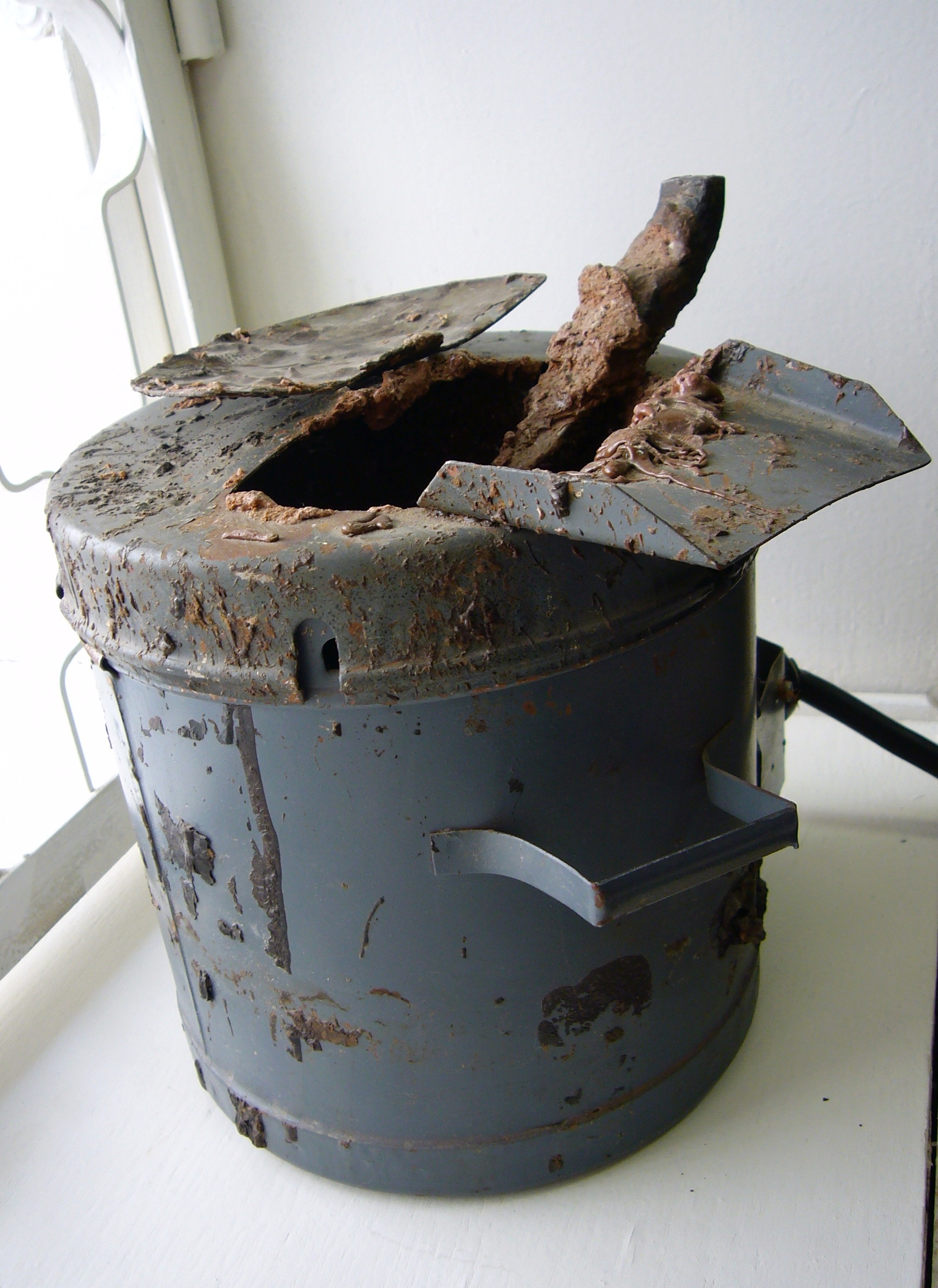 Old sealing wax electric heater. Postal Museum, Moscow, Russia.